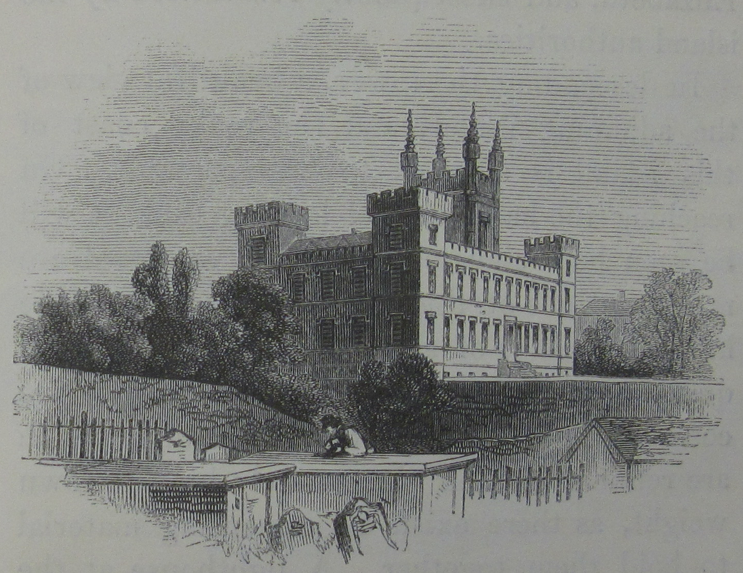 Rambles Among the Channel Islands, by a Naturalist, c.1860, Jean Louis Armand de Quatrefages de Bréau - ""Elizabeth College